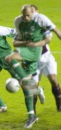 Rob Jones.